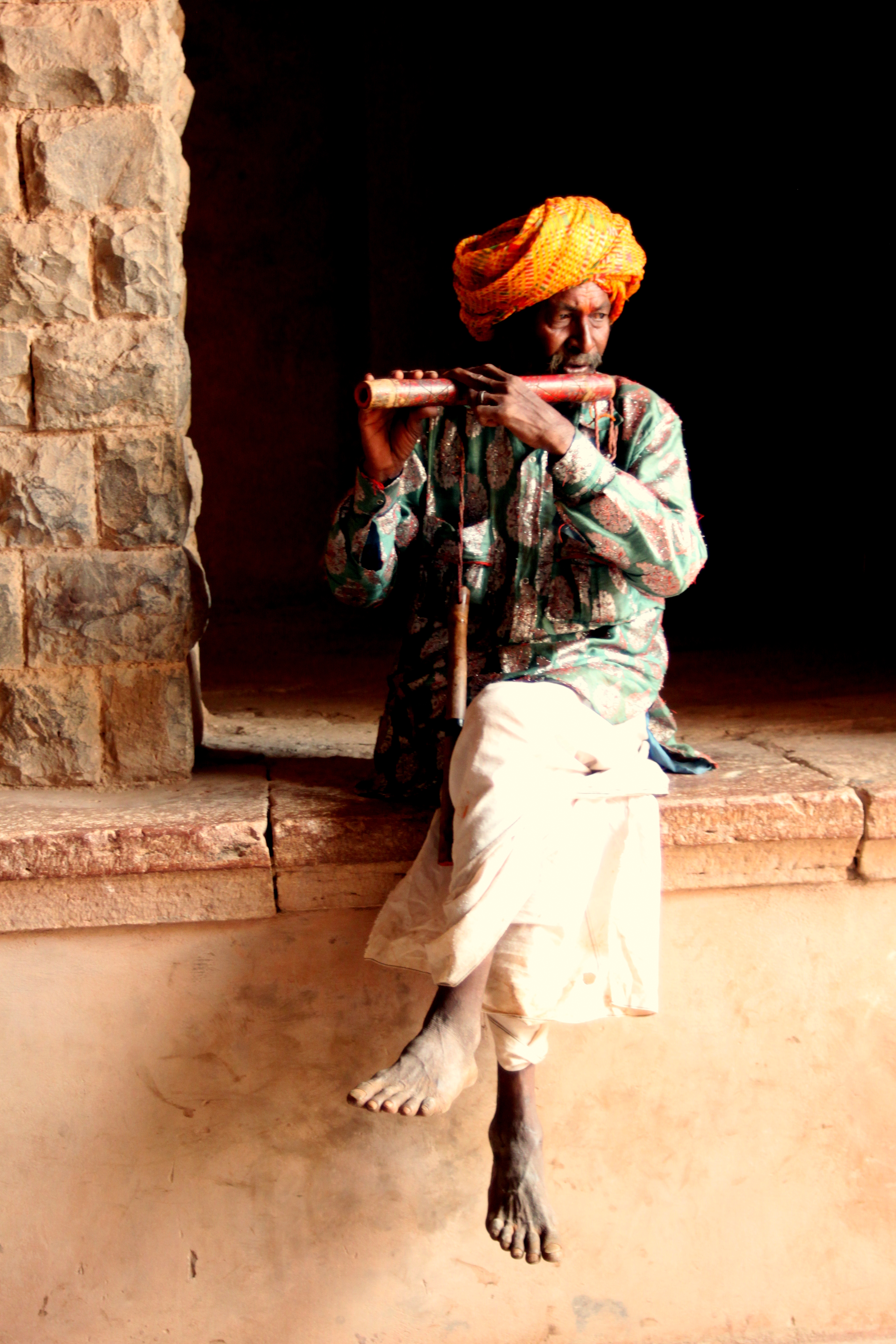 The man playing the flute belongs to the Bhilala tribe of Madhya Pradesh; he can be seen and heard charming the tourists inside Baz Bahadur's palace.